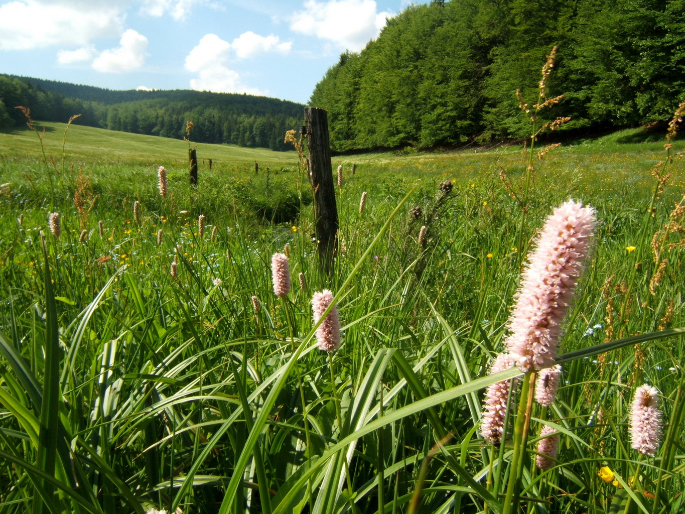 Persicaria bistorta in the Vesser valley, Thuringia, Germany